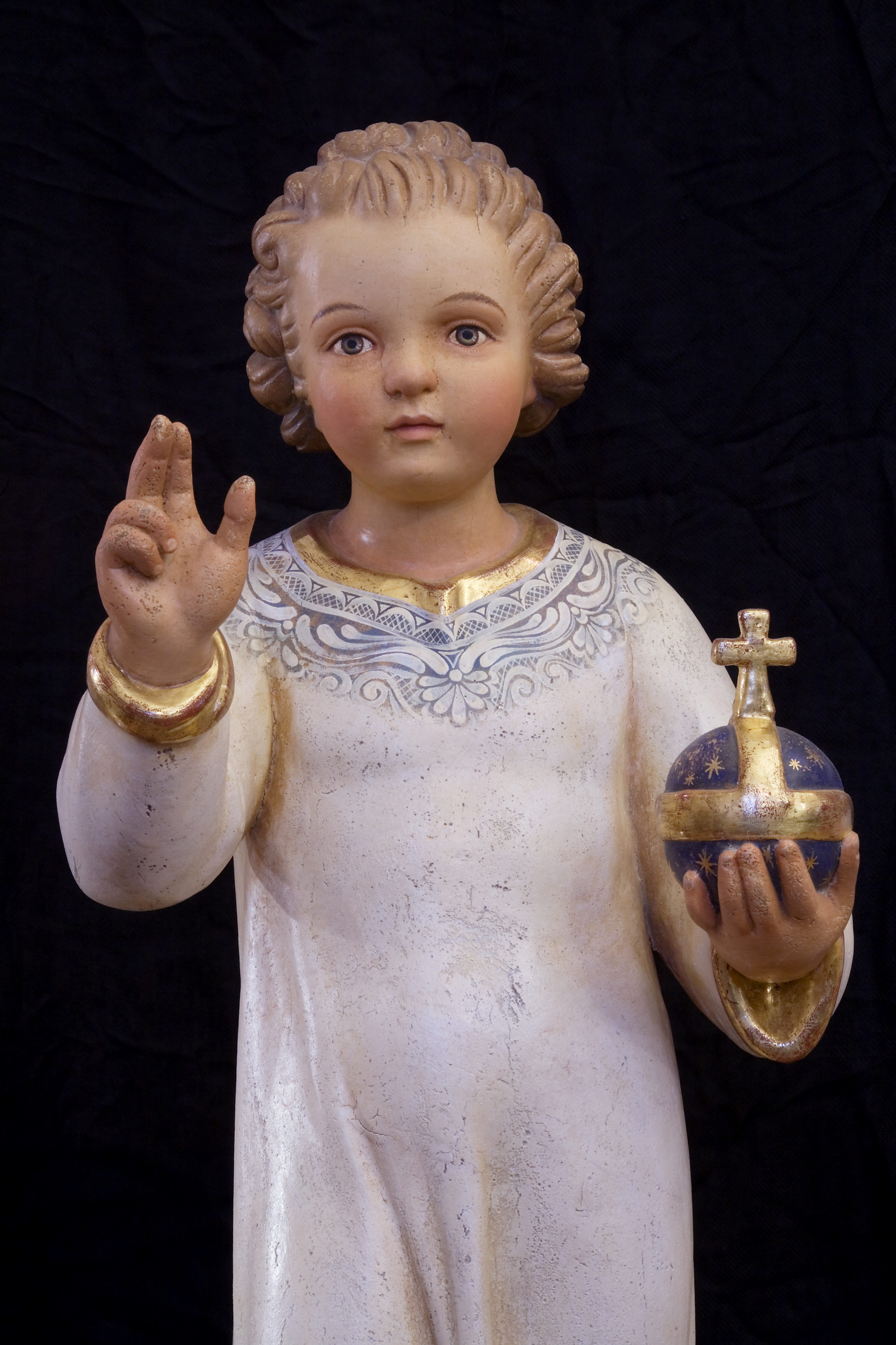 Infant jesus of prague- Das Prager Jesuskind- El niño jesus de Praga, Prague